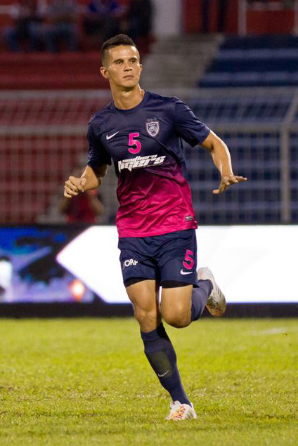 Baihakki Khaizan playing against Home United in a Charity Drive Match held at Larkin Stadium on 11 January 2014.